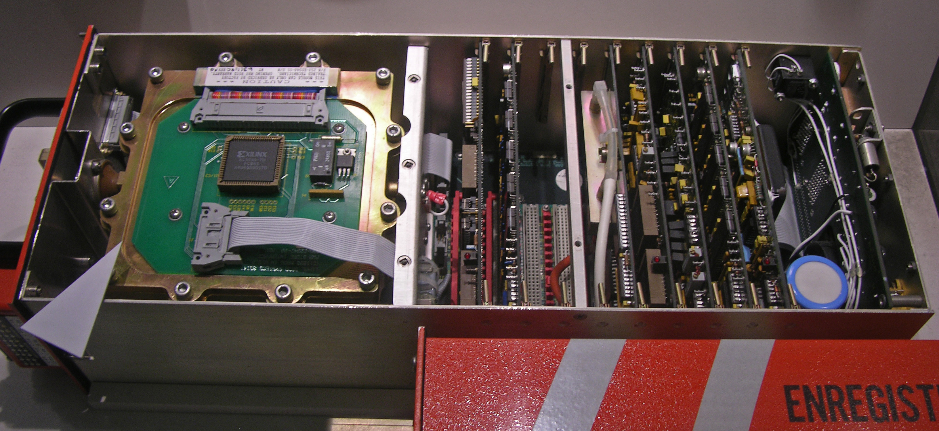 A modern flight data recorder opened